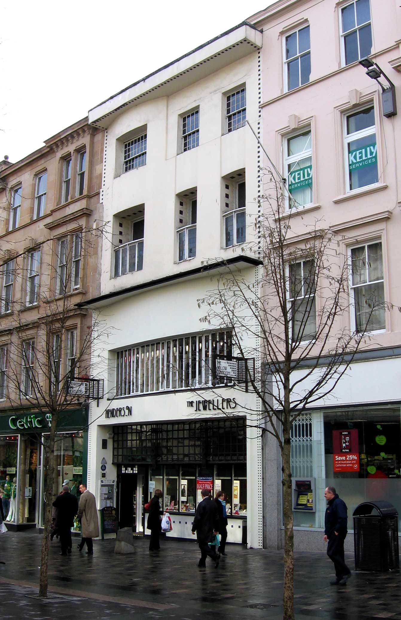 The WillowTearooms, Glasgow designed by Charles Rennie Mackintosh for Catherine Cranston. photograph taken on 9 March 2006 by User:Dave souza. Any re-use to contain this licence notice and to attribute the work to User:Dave souza at Wikipedia.